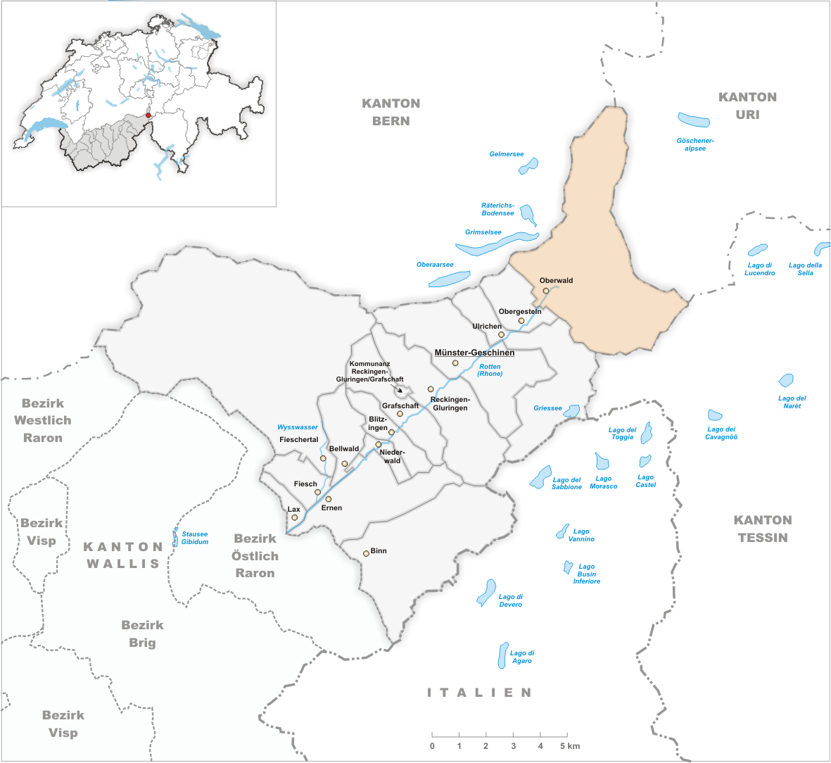 Municipality Oberwald